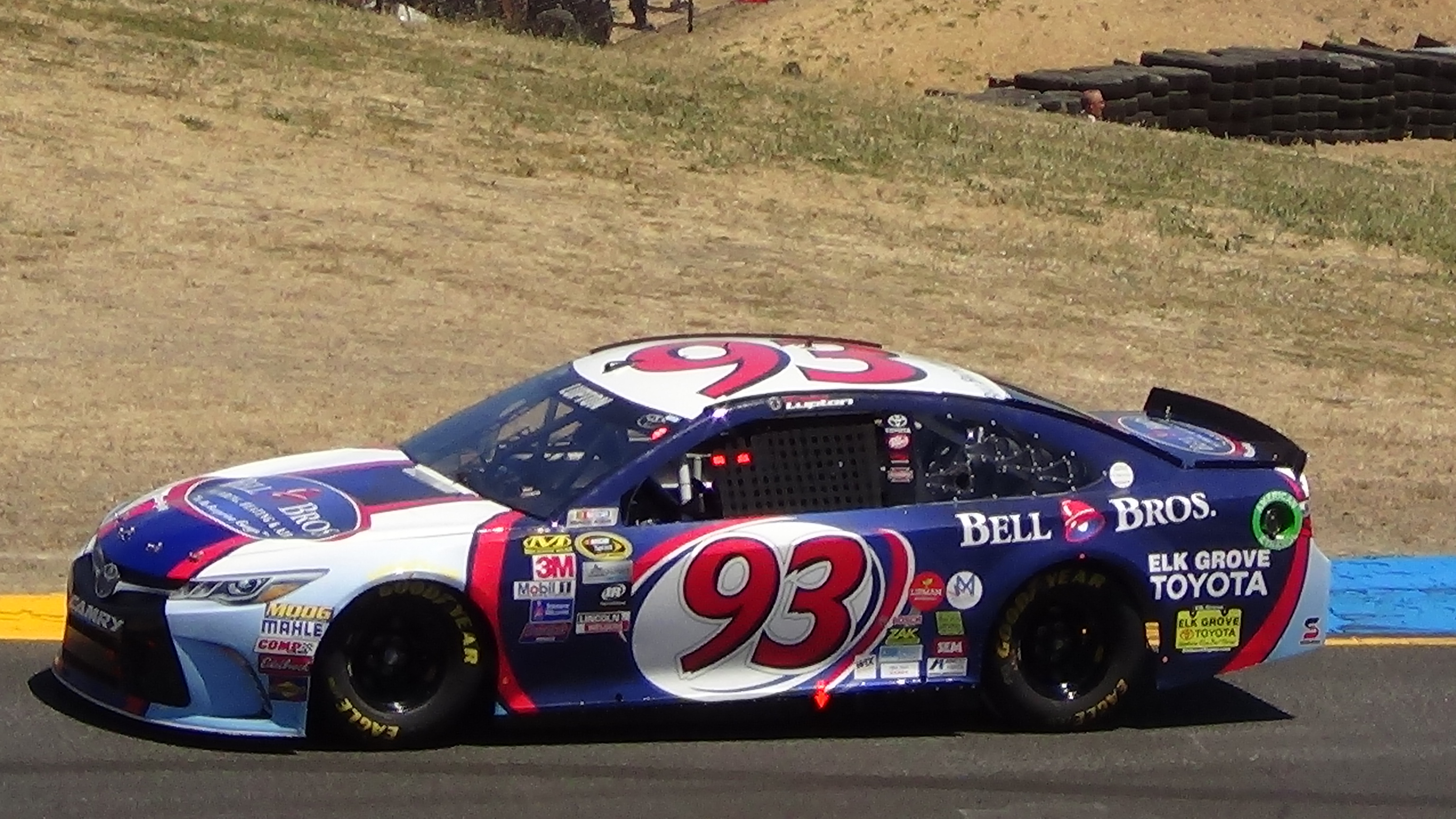 Dylan Lupton at Sonoma Raceway (2016)